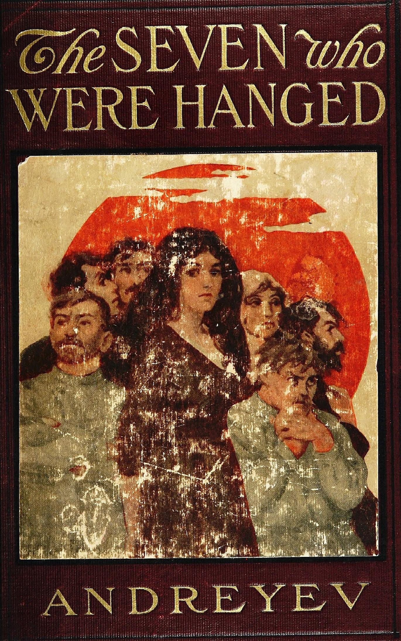 Cover of The Seven Who Were Hanged by Andreyev